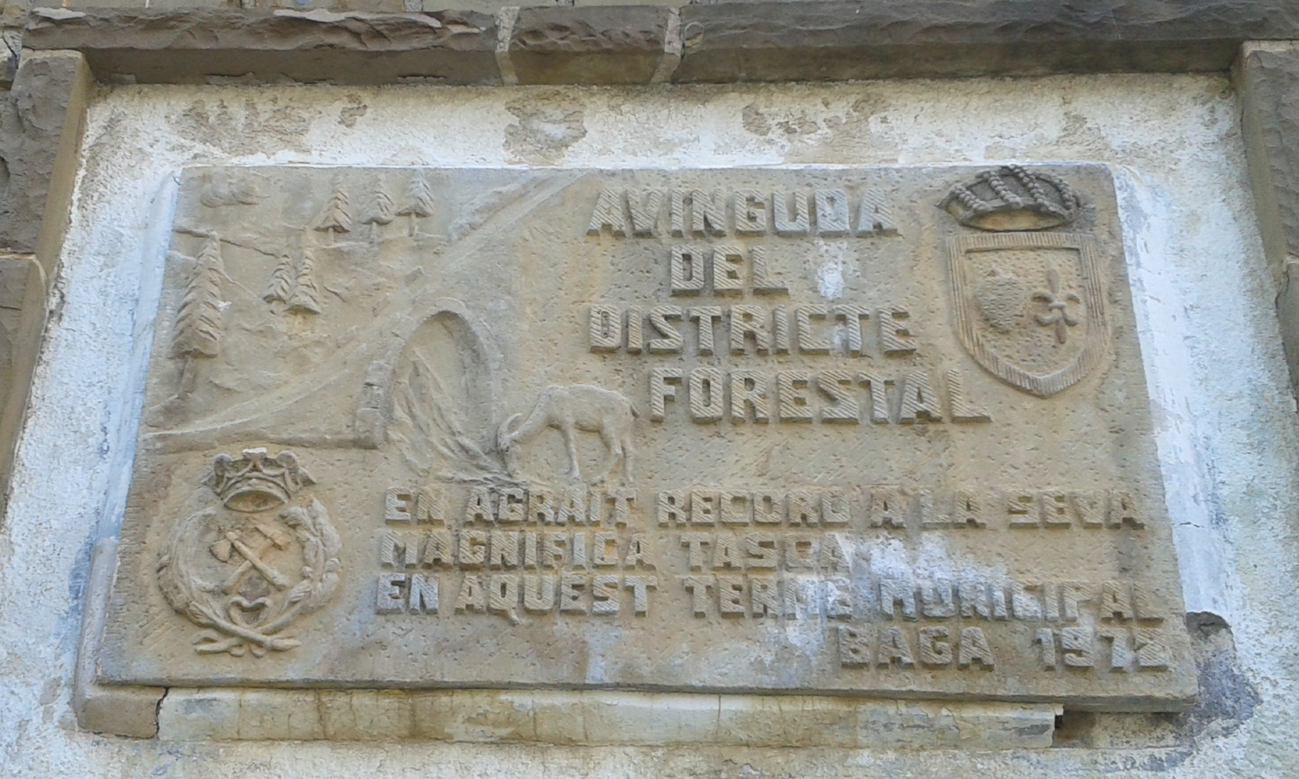 Avenue of the town of Baga (Berguedà) dedicated to the Forestry Administration (District Forestry)